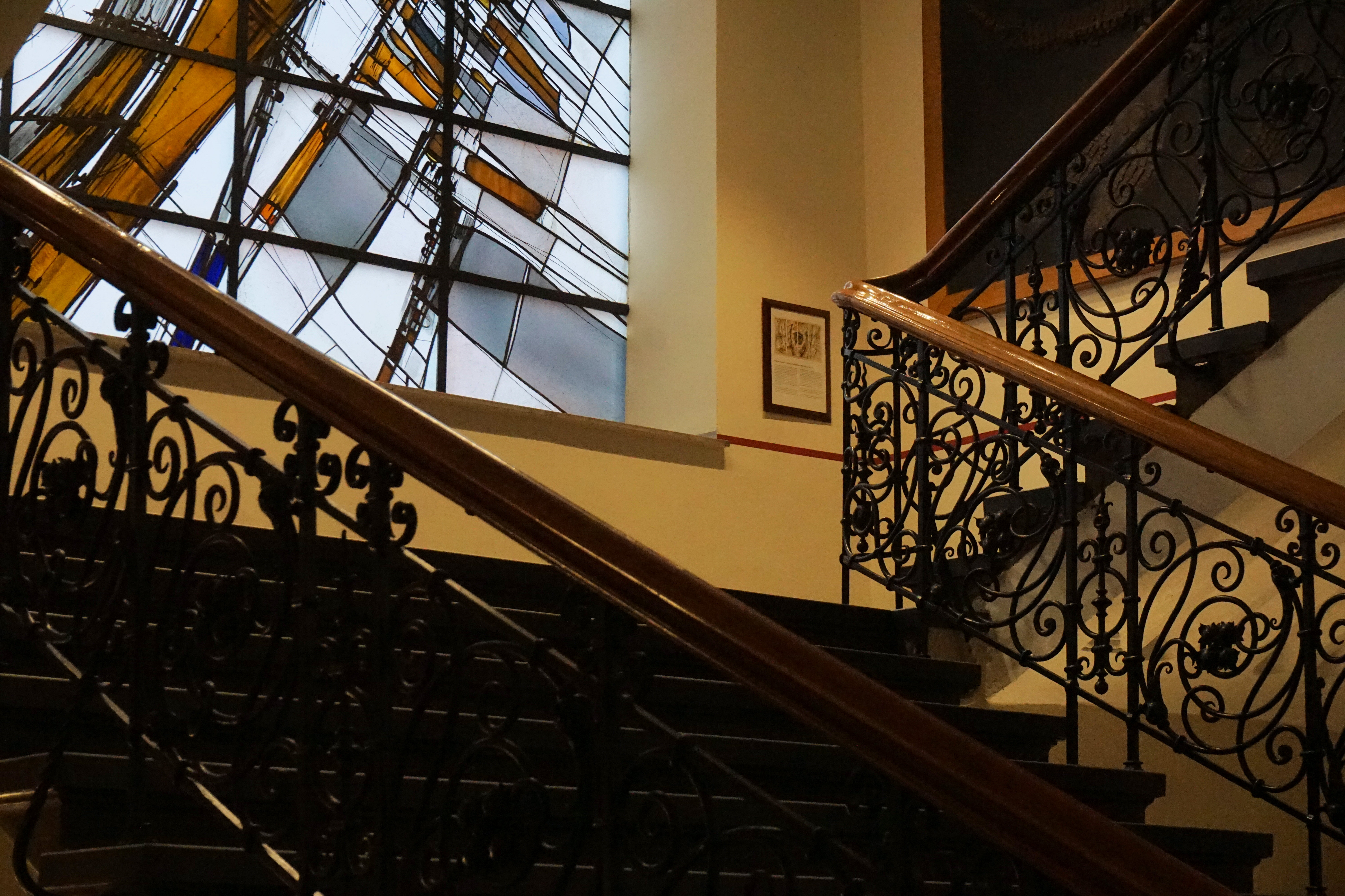 stairwell in the Technical University "Georg Agricola"